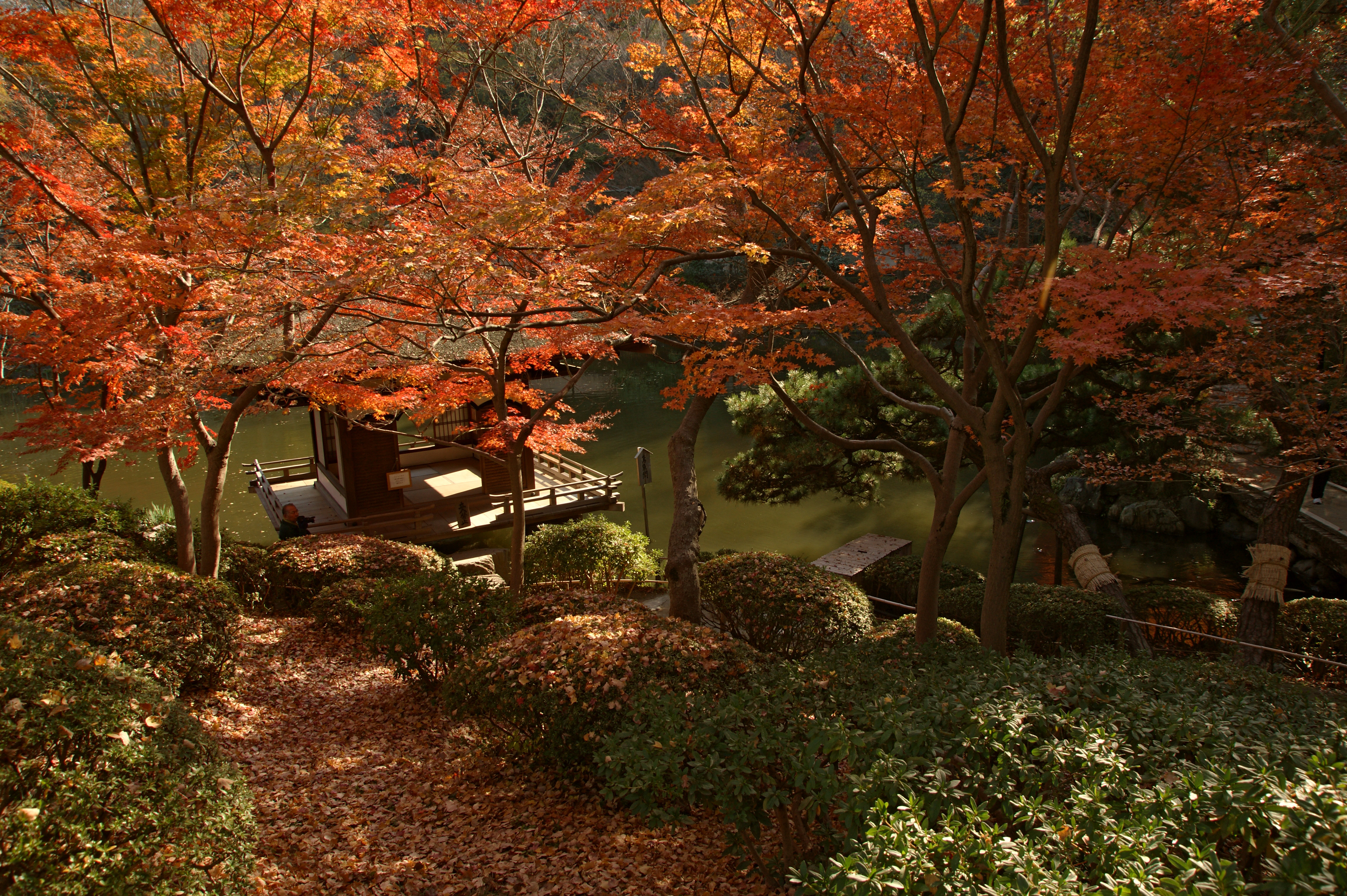 Wakayama Castle Nishinomaru Garden, Wakayama, Wakayama prefecture, Japan